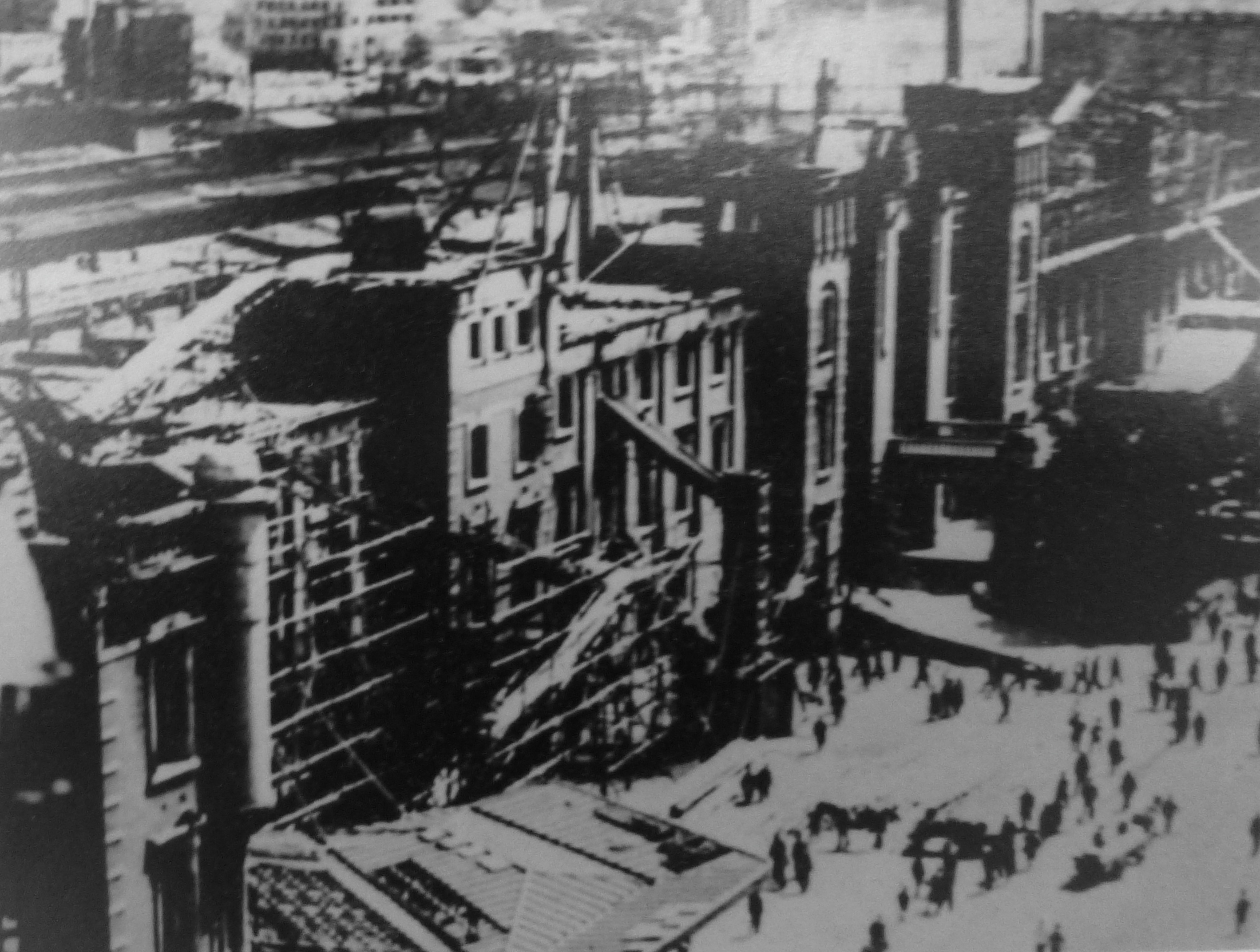 View of Tokyo Station after firebombing